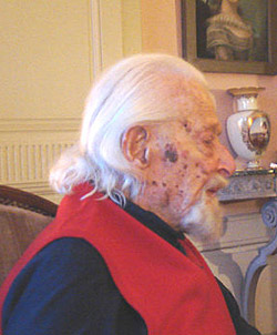 Swiss opera singer Hugues Cuénod (107) at his apartment in Vevey, 22 February 2010